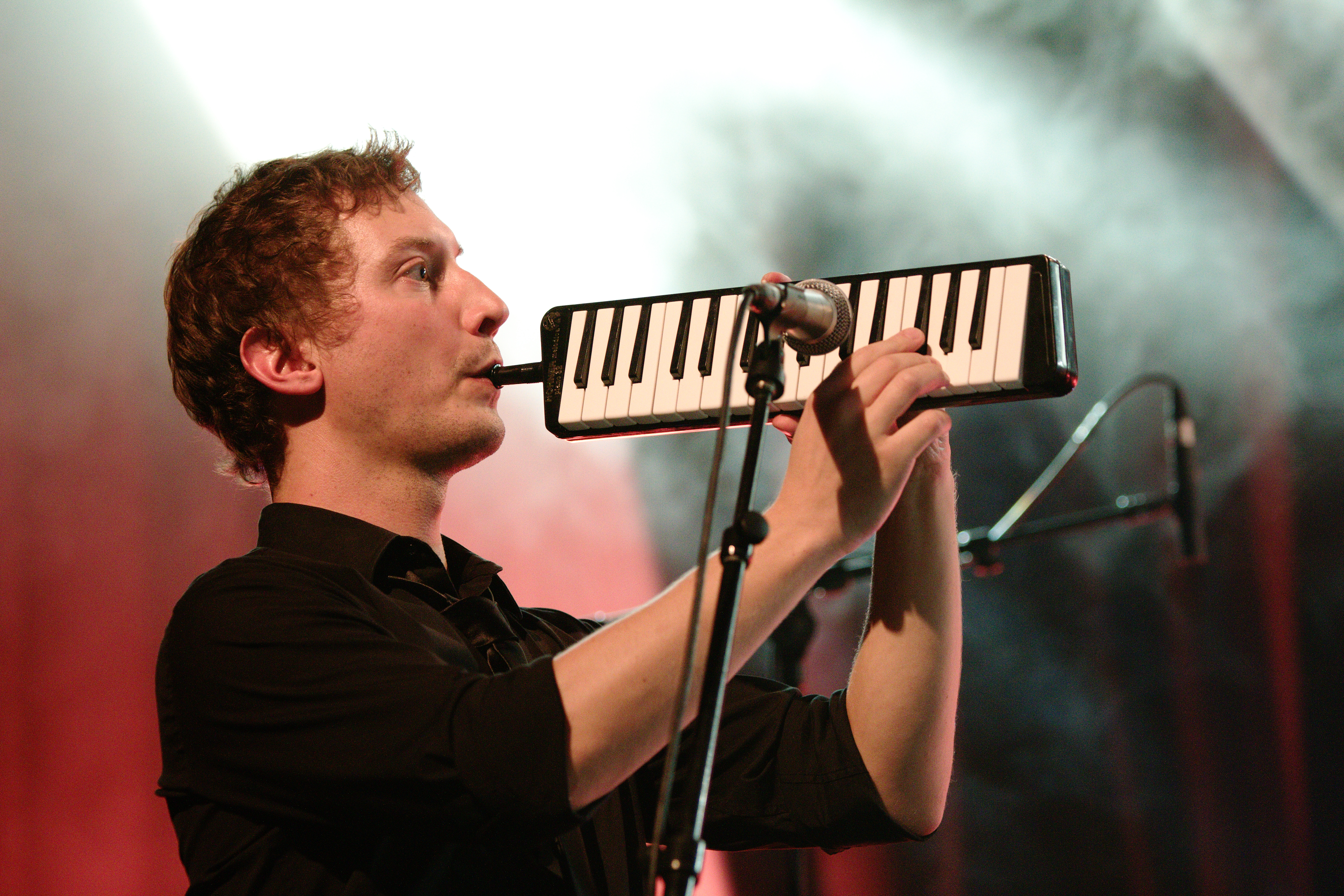 Monsieur Lune live during the French song festival 2010 in Aix-en-Provence (France).